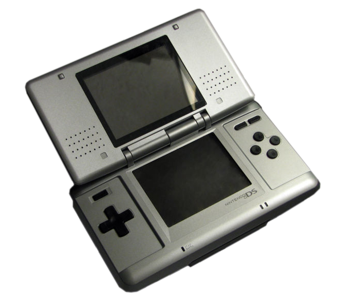 A Nintendo DS. Image:NintendoDS Warm.jpg Trans version.